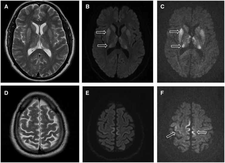 MRI of a 46 year old with iatrogenic CJD Basal ganglia and thalamic hyperintensity is seen on T2-weighted images (A), DWI at b = 1000s/mm2 (B) and (C) DWI at b = 3000s/mm2. Cortical hyperintensity in the paracentral lobule bilaterally and right precentral gyrus is not visualized on T2-weighted images (D) but is seen on DWI b = 1000s/mm2 (E) and (F) is more conspicuous at DWI at b = 3000s/mm2